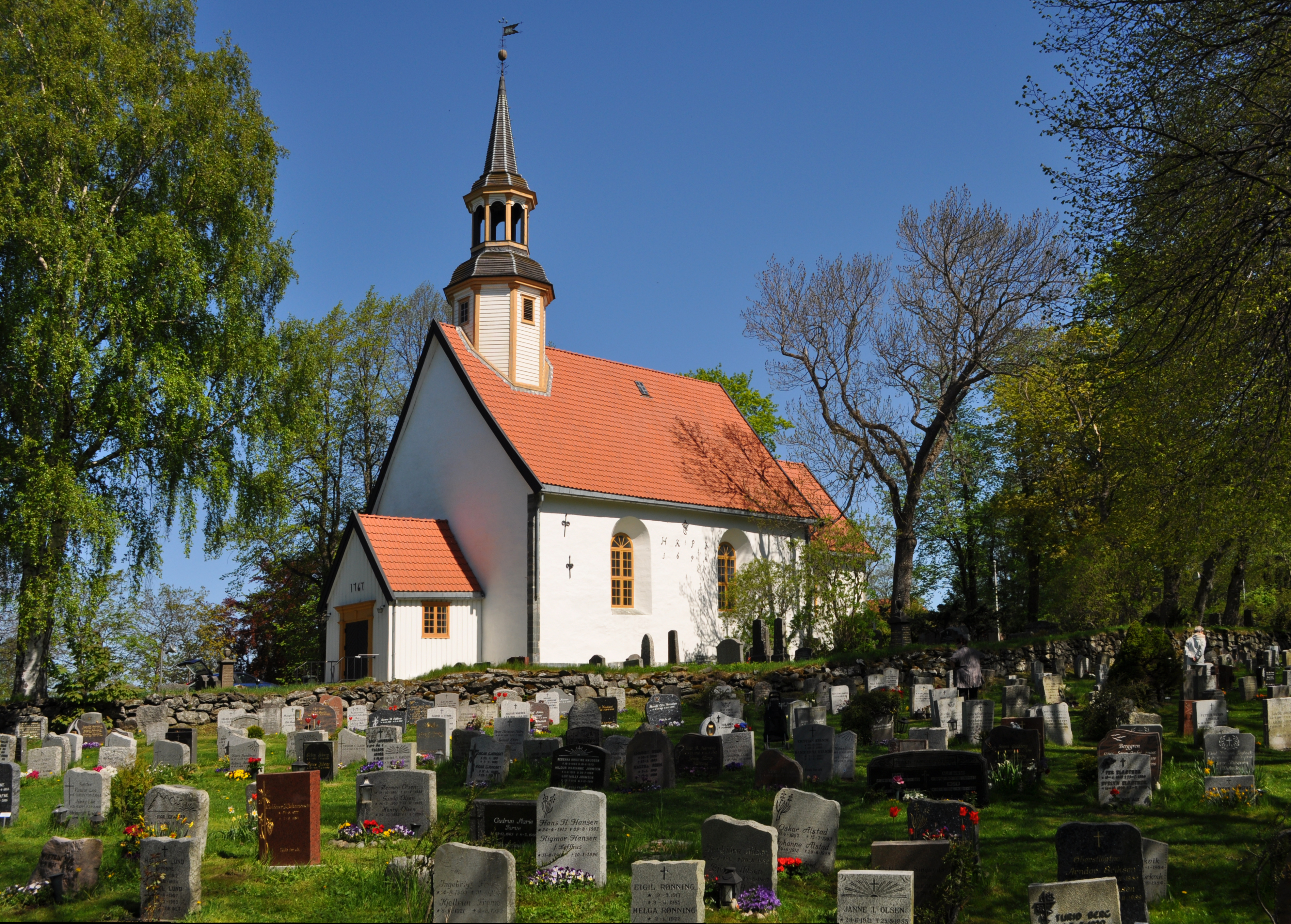 Lade Church in Trondheim